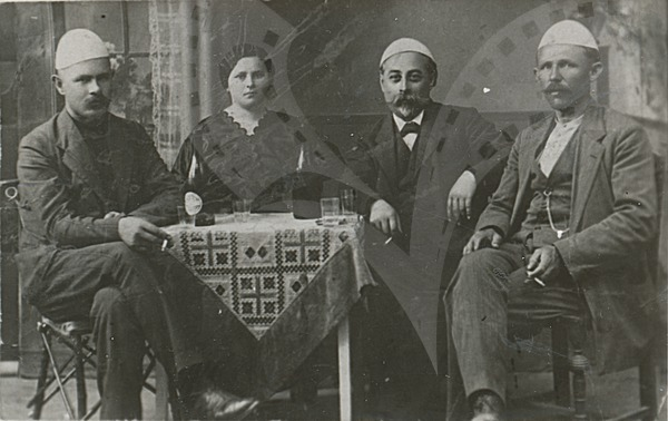 Dusan Cekic, Rosa Plaveva, Georgi Kirkov, Iliya Plavev